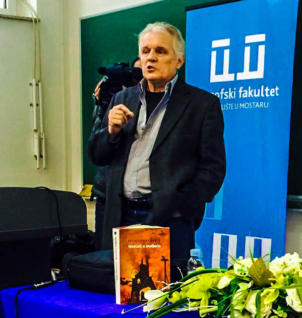 Ivan Lovrenović at the Faculty of Humanities, University of Mostar